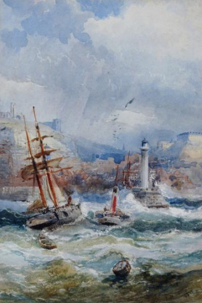 Whitby 1886, a watercolour on paper by Frederick William Booty [1840-1924].